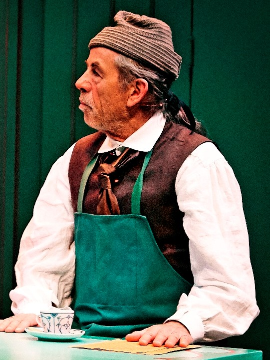 Torben Zeller in the Copenhagen theater Folketeatret's production of the play "Den politiske kandestøber" by Ludvig Holberg.